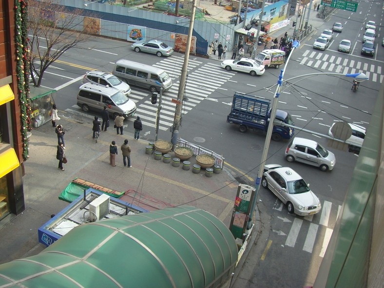 Konkuk University Station